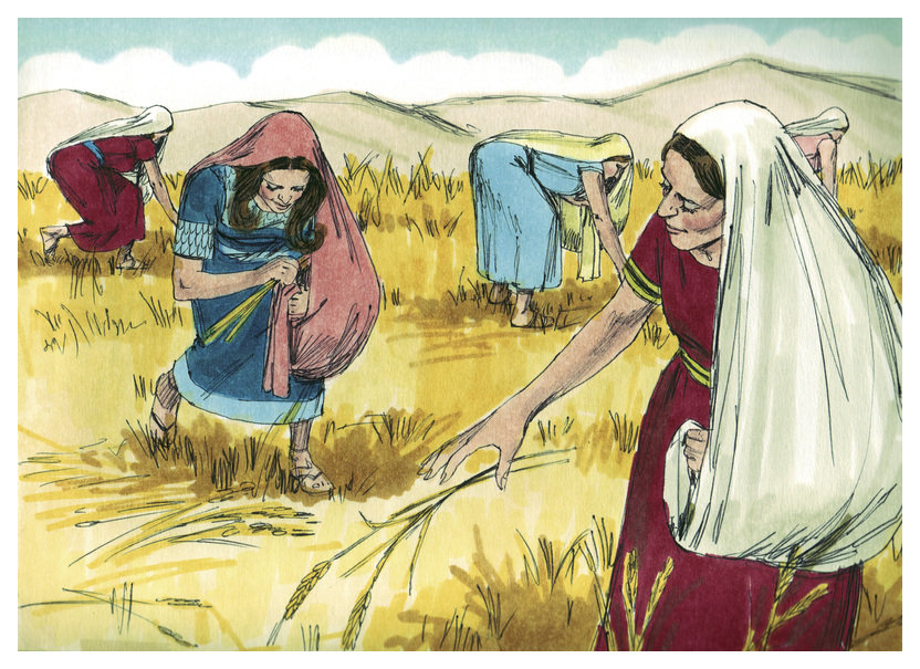 Biblical illustration of Book of Ruth Chapter 2